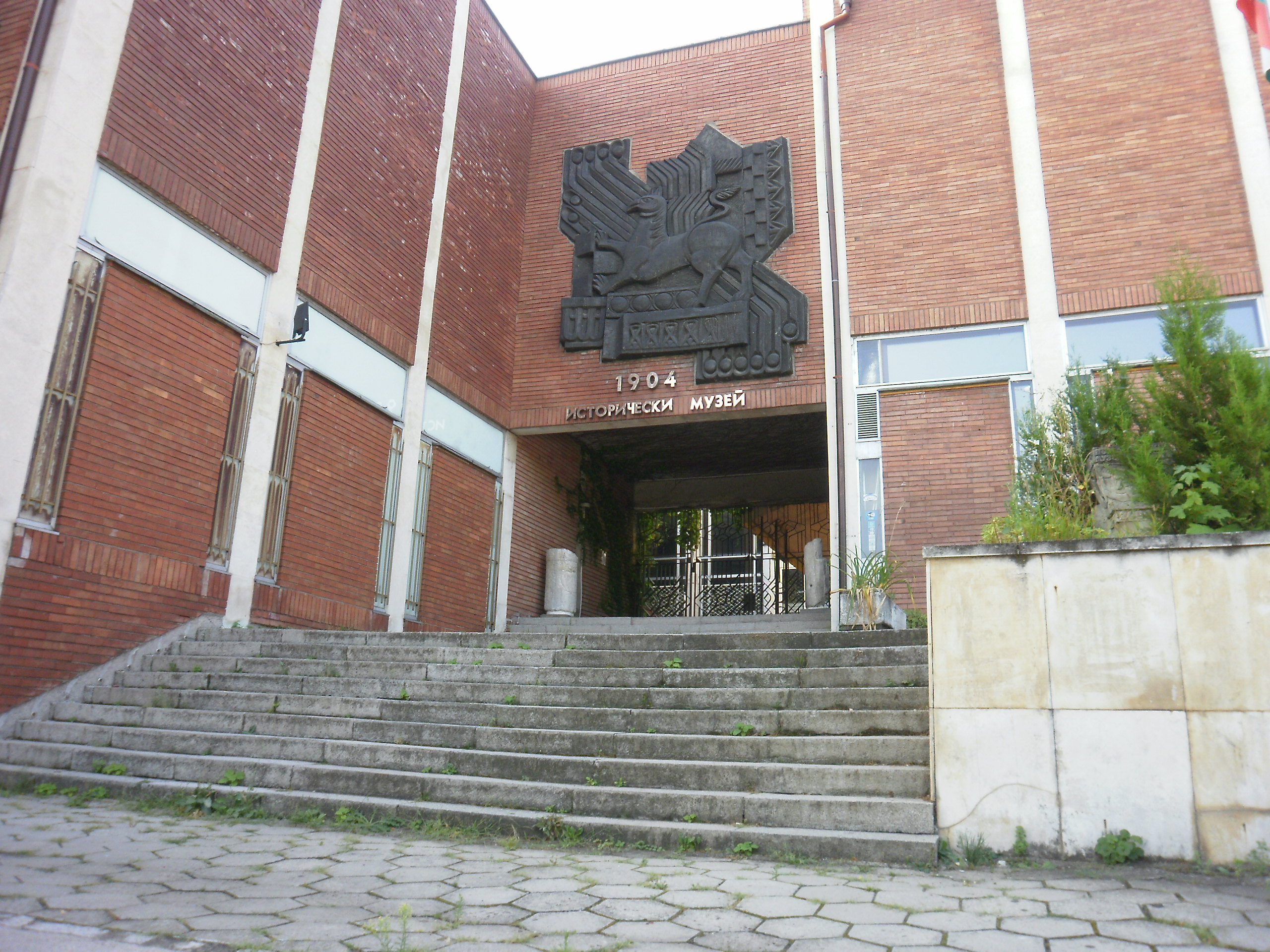 History museum, Shumen, Bulgaria.